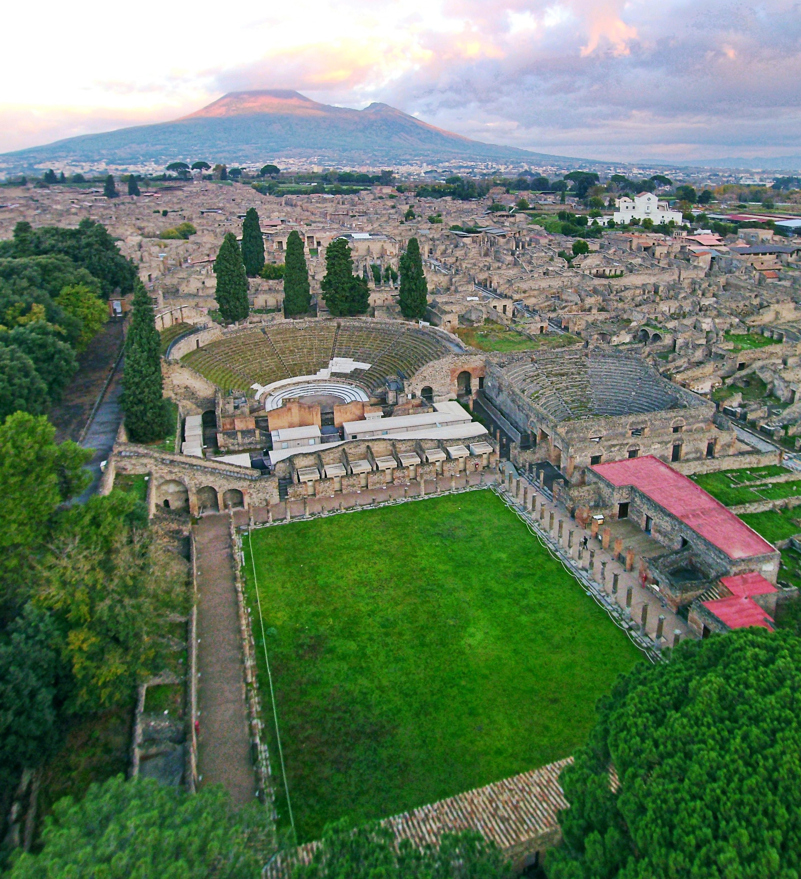 Theaters of Pompeii seen from the above with a drone, with the Vesuvius in the background